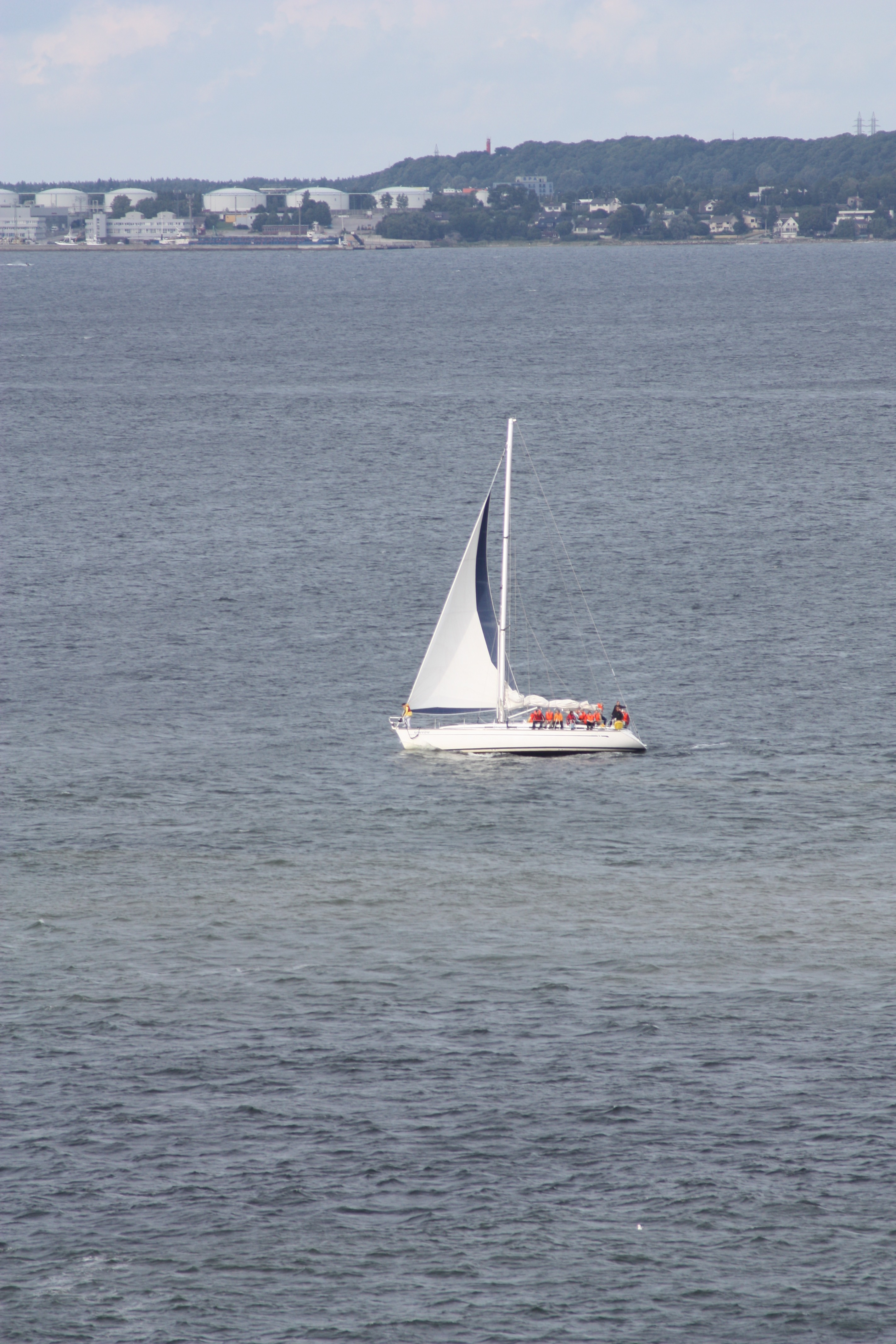 View to former Kiroff's factory (closed after USSR fail).